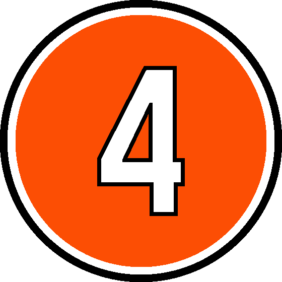 The number "4", retired for Earl Weaver by the Baltimore Orioles.